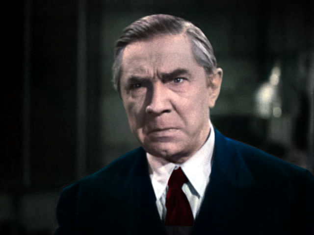 Colorized screencap of Bela Lugosi in "The Devil Bat" (1940), which is now in the public domain.